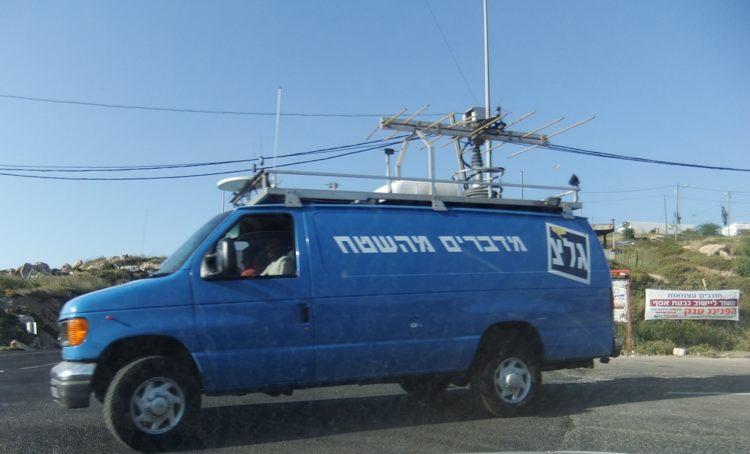 Broadcasting vehicle of Galei Tzahal, the broadcasting station of the IDF, at Givat Assaf